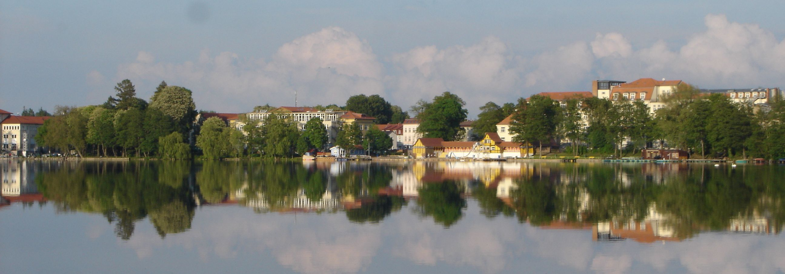 Panorama of Strausberg old town by lake Straussee